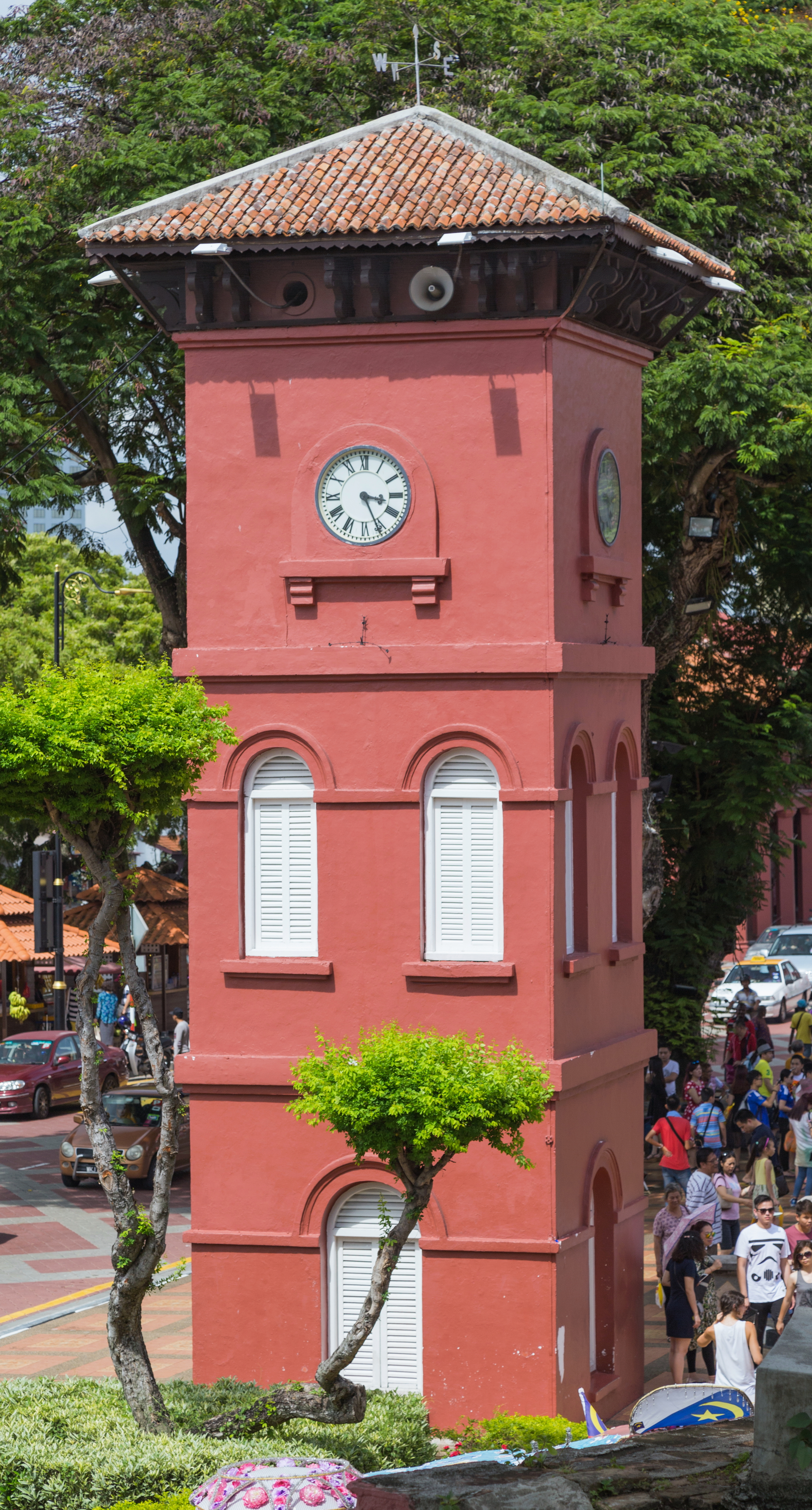 Clock Tower at Dutch Square. Malacca City, Malacca, Malaysia.